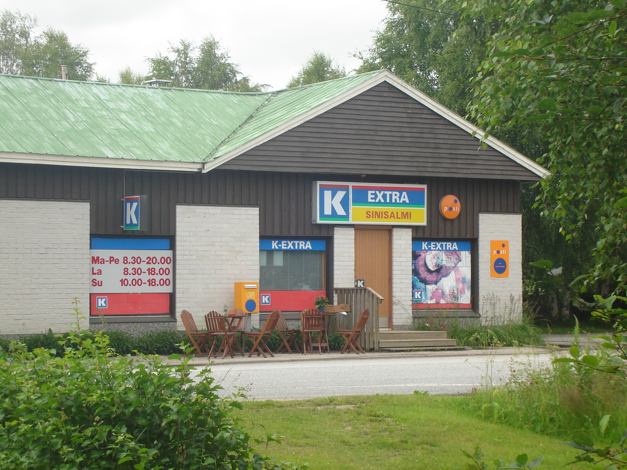 K-Extra Sinisalmi, a local store in the village of Vieki, Finland (July 2008)